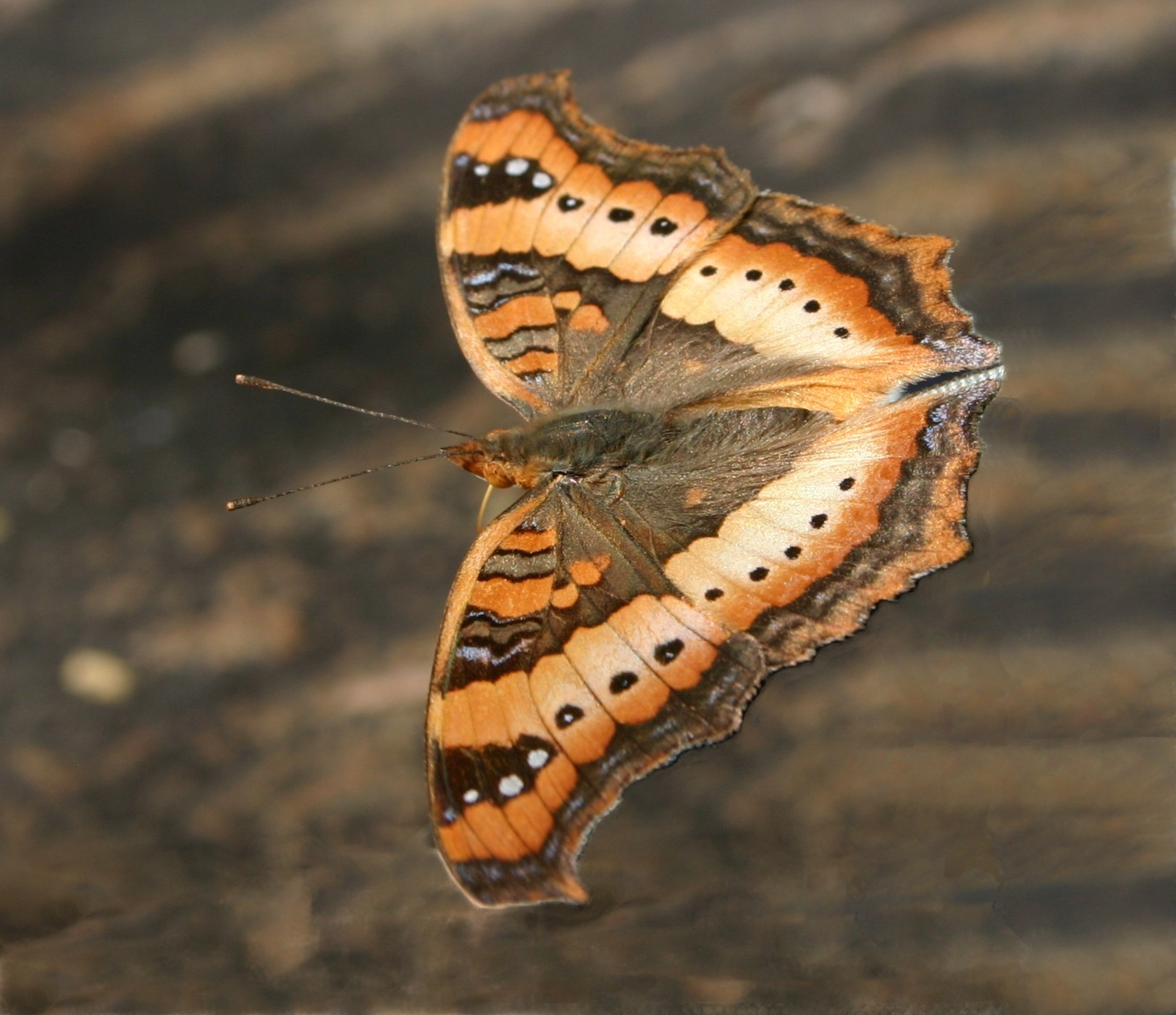 Dry season form of a Marsh commodore at Hamerkop in the Magaliesberg, South Africa